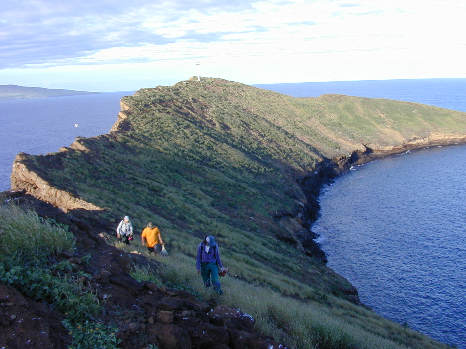 Portulaca molokiniensis (habitat — with State crew banding birds). Location:Molokini, Maui.